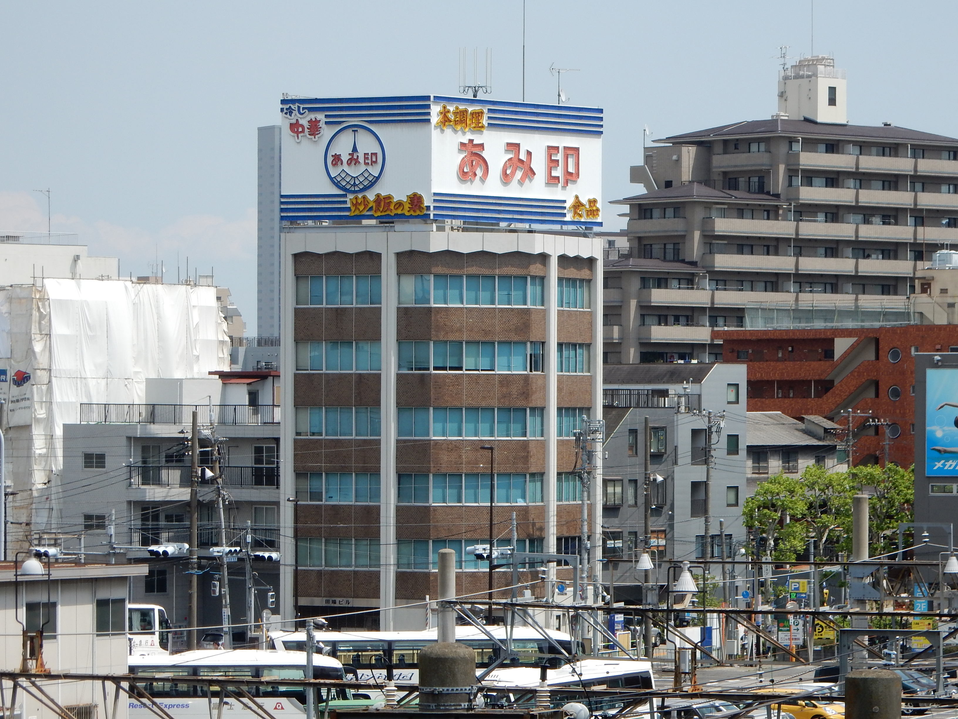 Headquaters of Ami-jirushi Shokuhin Kogyo (あみ印食品工業 Ami-jirushi Shokuhin Kōgyō, Net-brand Food Industry), in Kita, Tokyo, Japan